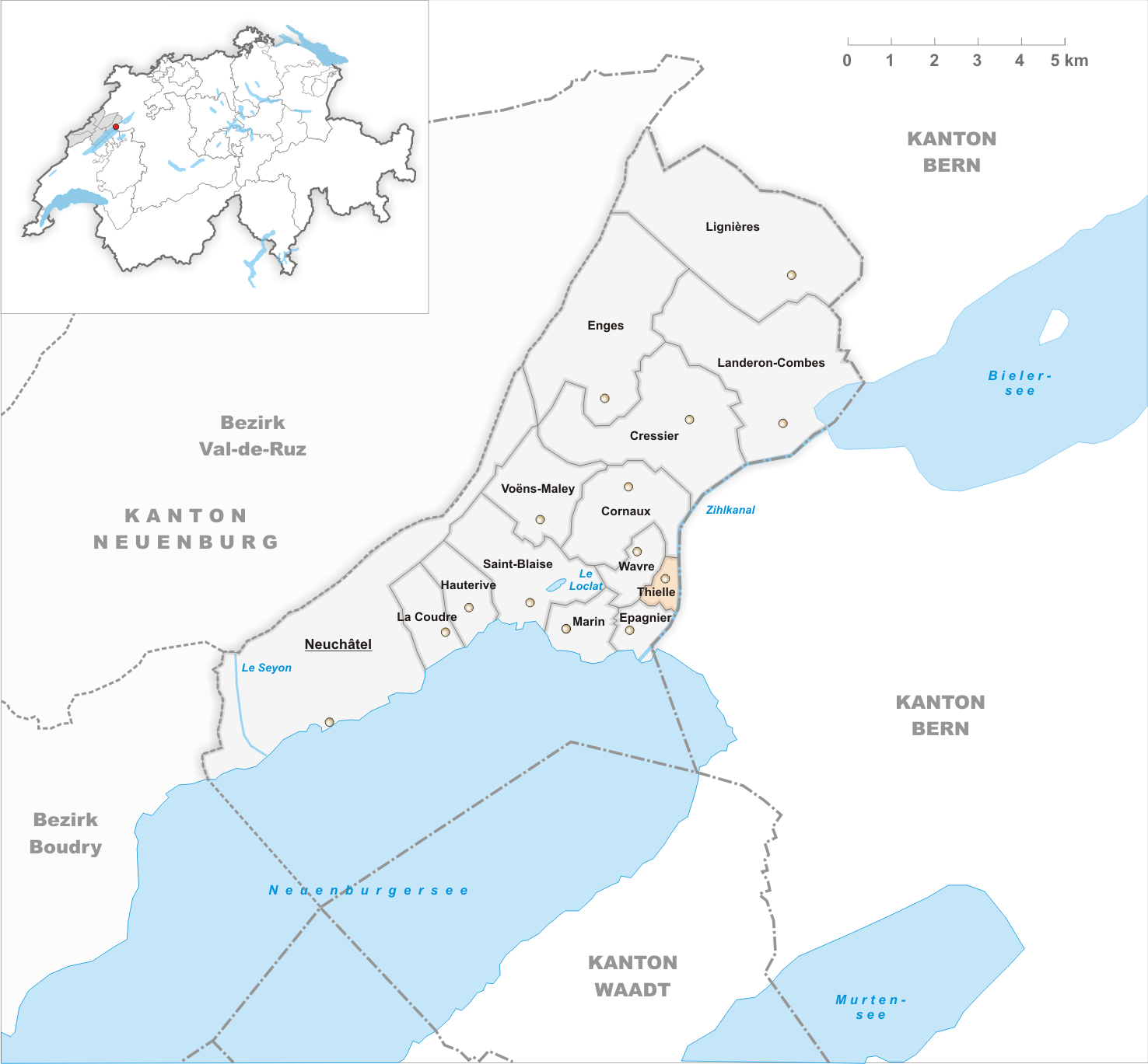 Municipality Thielle Artist: Tschubby